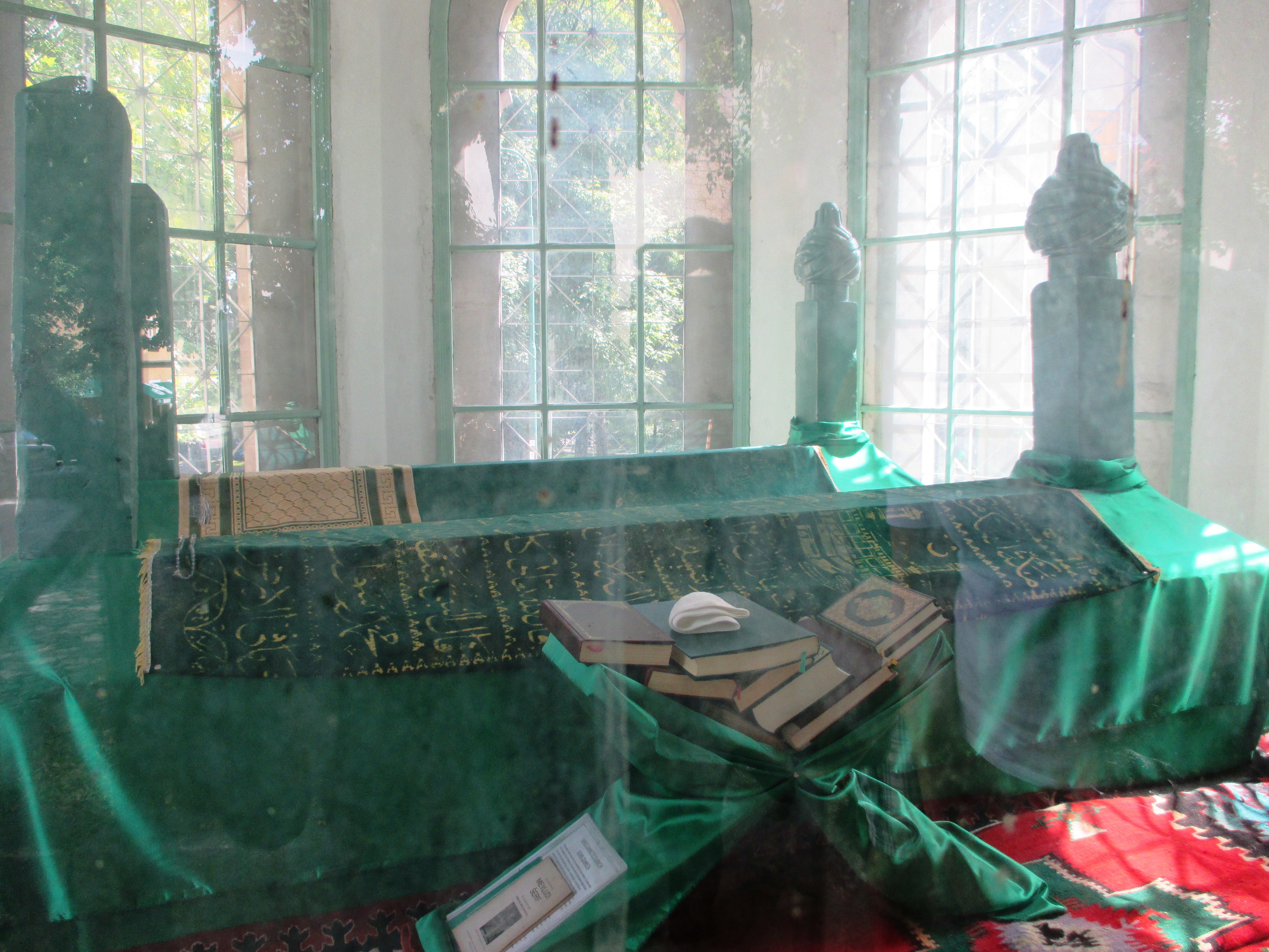 Bihac turbe interior